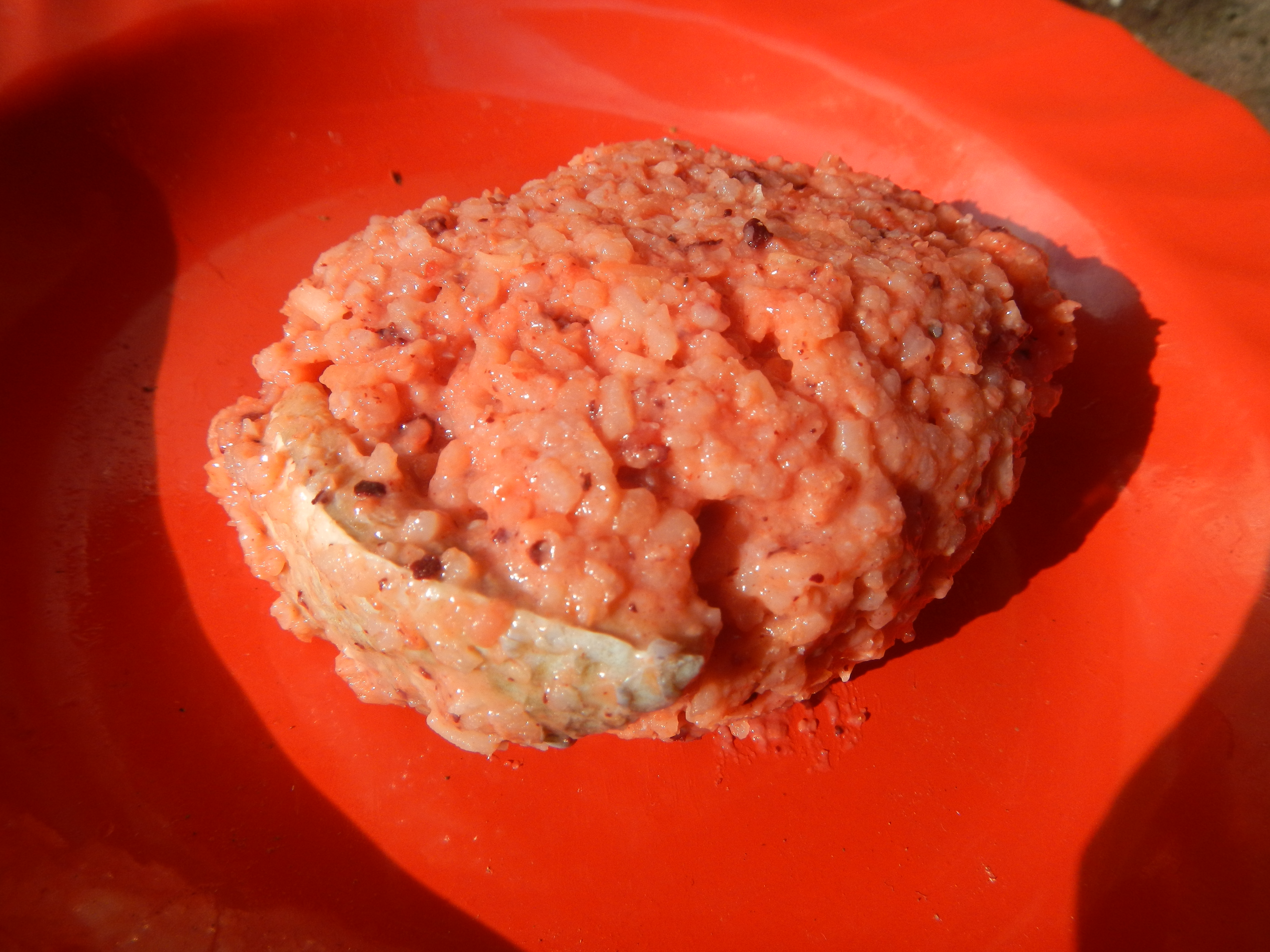 List of Philippine dishes Cuisine of Bulacan Foods Fruits photos taken in Barangay Poblacion 14°57'17"N 120°54'2"E Baliuag, Bulacan, Bulacan province (Note: Judge Florentino Floro, the owner, to repeat, Donor Florentino Floro of all these photos hereby donate gratuitously, freely and unconditionally all these photos to and for Wikimedia Commons, exclusively, for public use of the public domain, and again without any condition whatsoever).